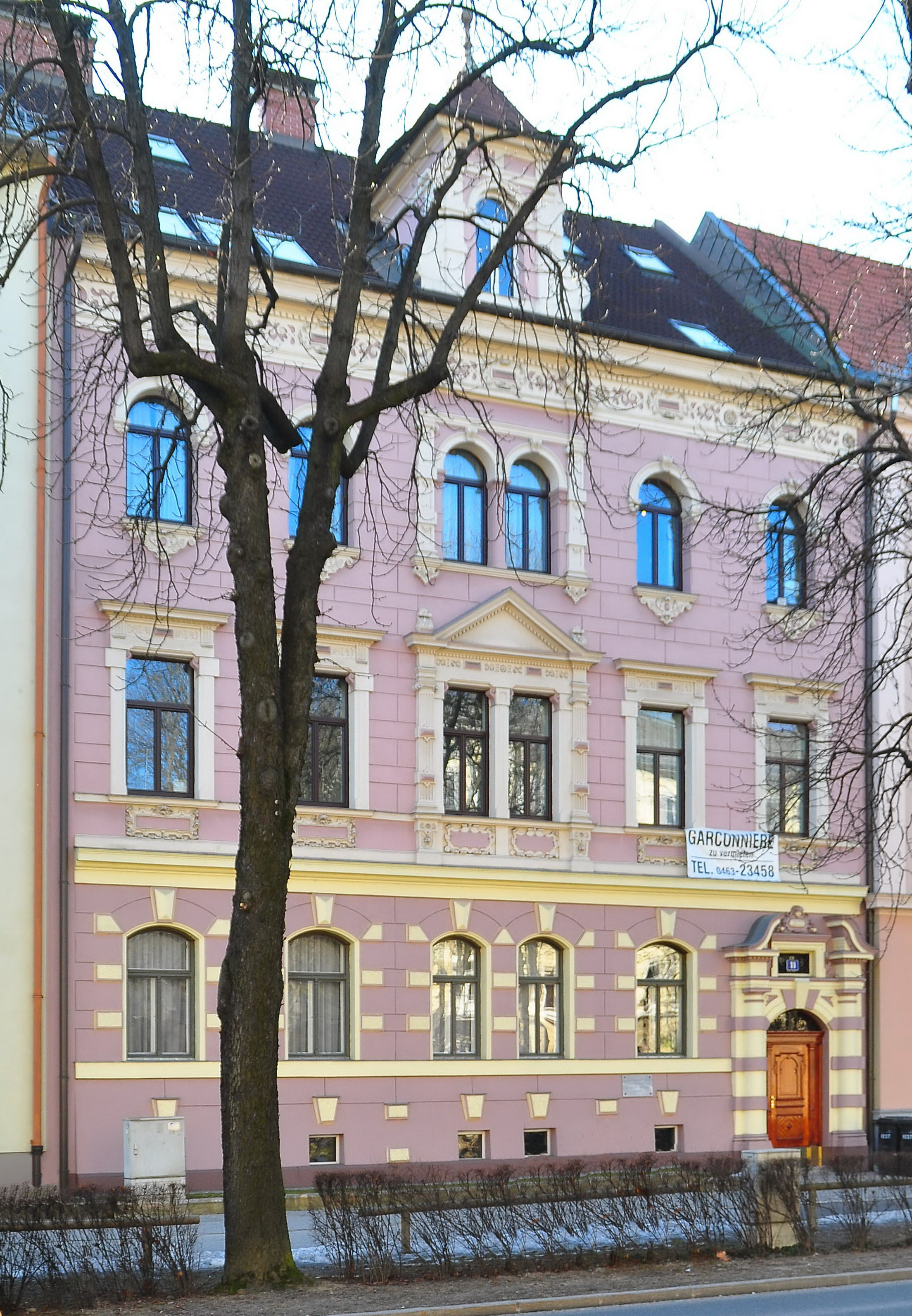 Birthplace of Herbert Boeckl, late historicist building, Viktringer Ring #11, 7th district «Viktringer Vorstadt», statutary city Klagenfurt, Carinthia, Austria, EU